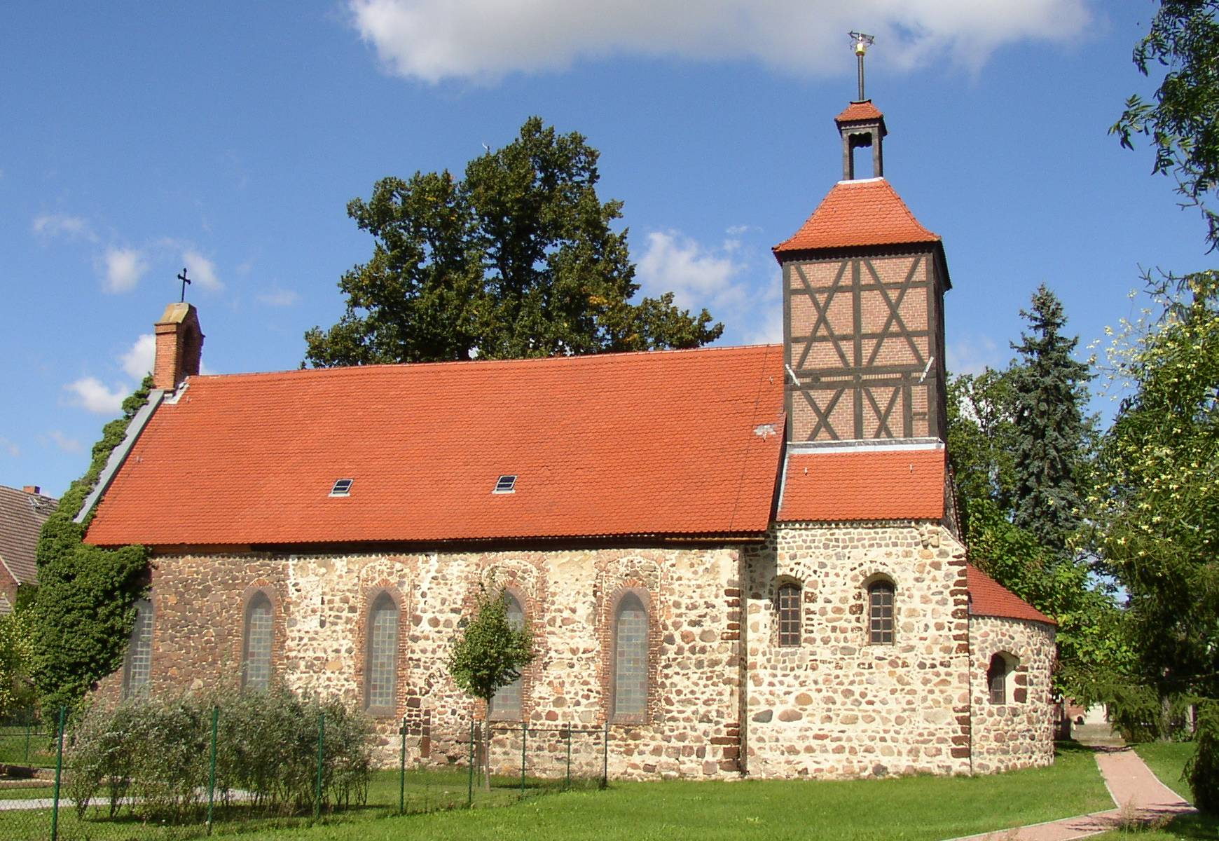 Church in Wittenberg-Seegrehna in Saxony-Anhalt, Germany